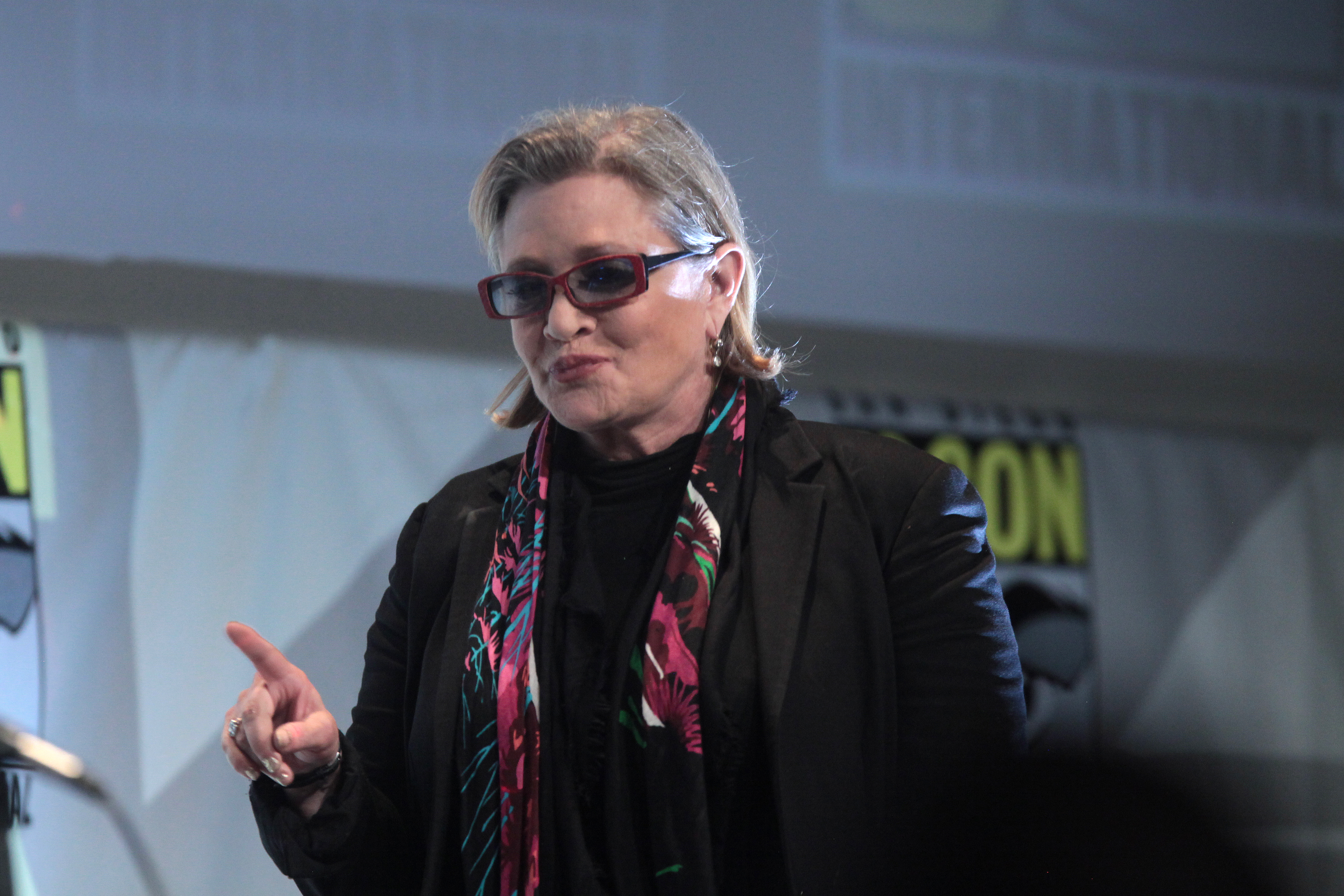 Carrie Fisher speaking at the 2015 San Diego Comic Con International, for "Star Wars: The Force Awakens", at the San Diego Convention Center in San Diego, California.